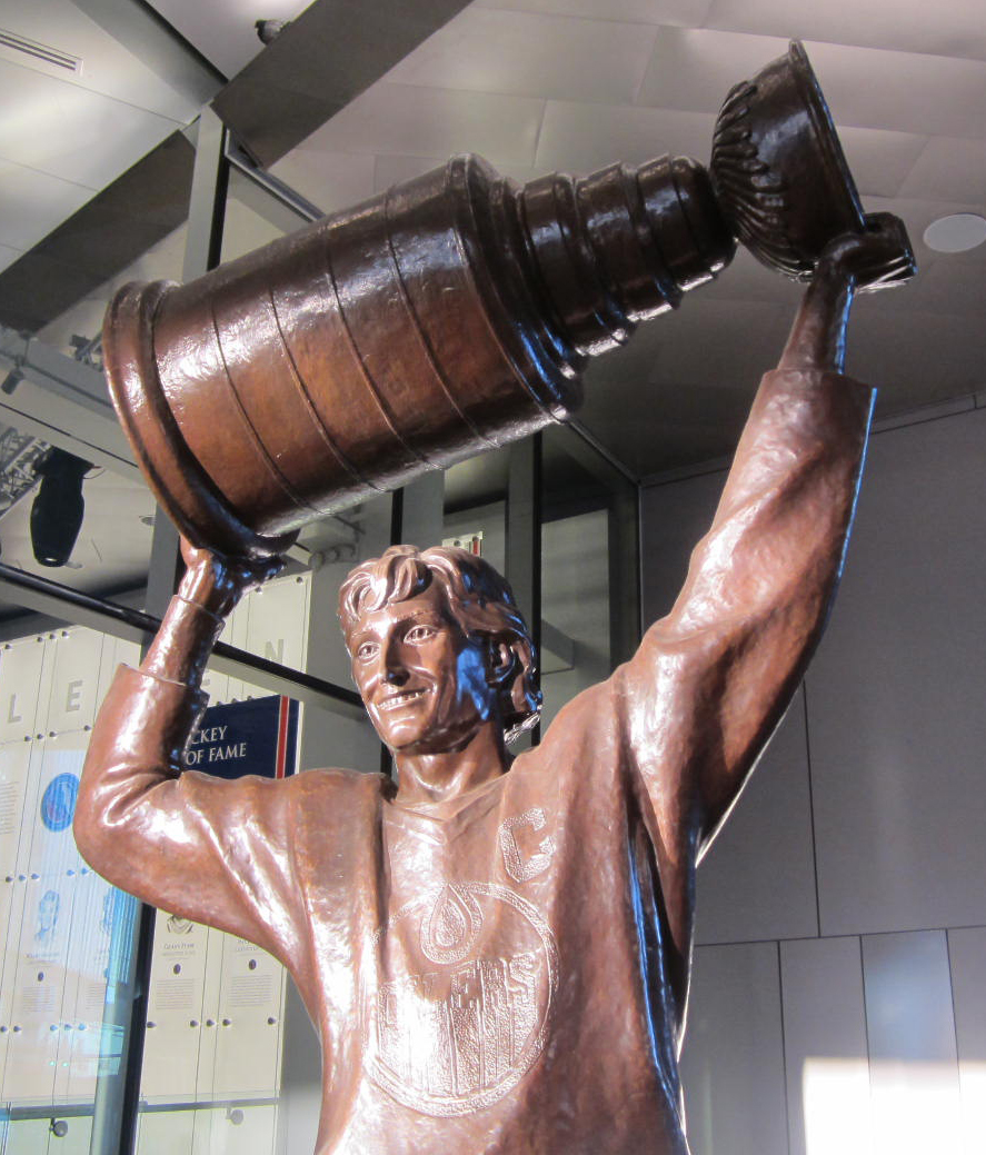 Statue of Wayne Gretzky in front of Rogers Place, in Edmonton, Canada.